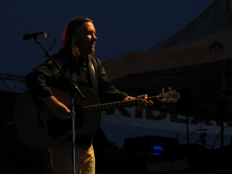 Violent Femmes bassist Brian Ritchie performing at Day on the Meadow in San Jose, CA. Can also be seen at Flickr here.